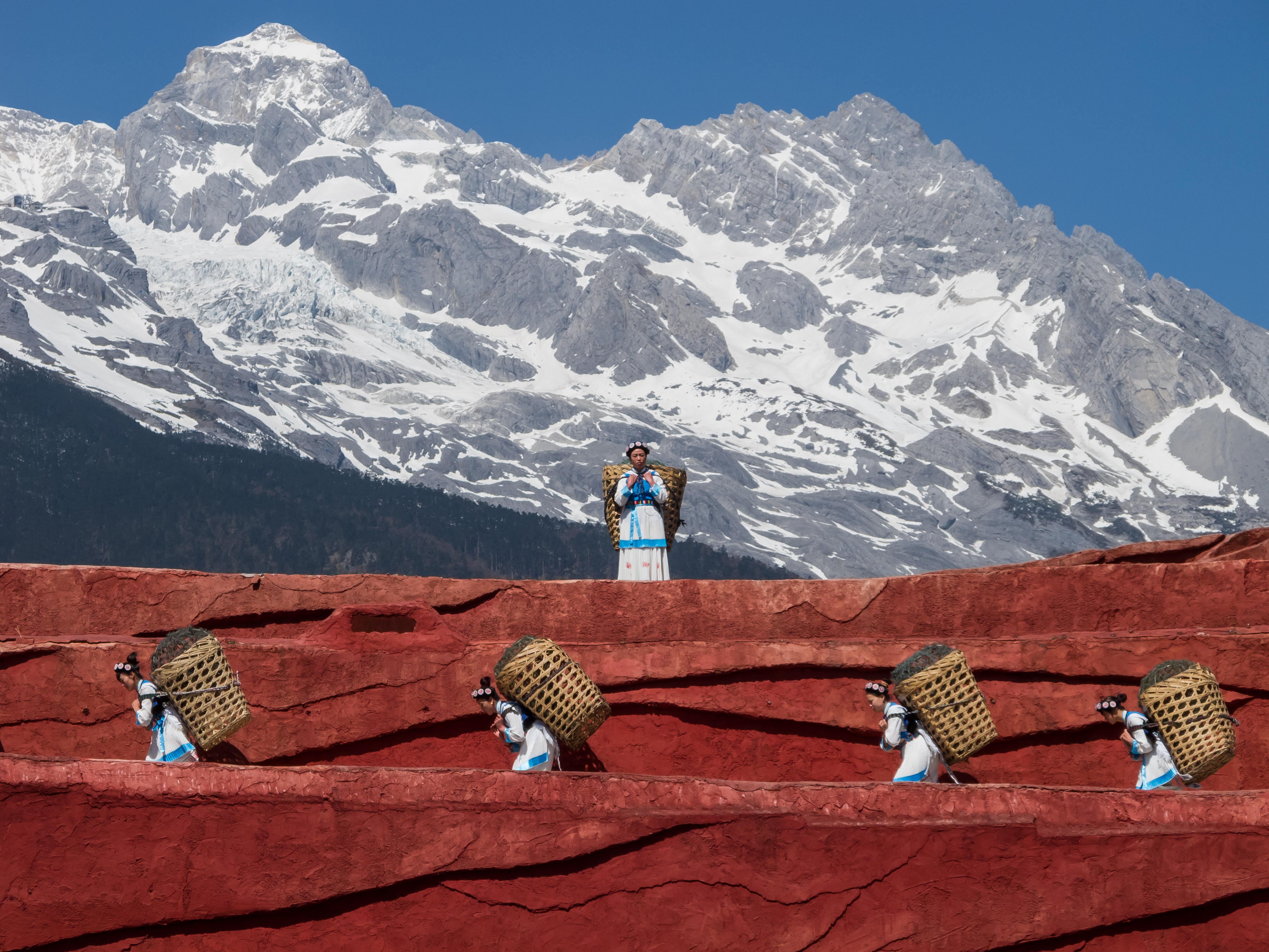 Lijiang, Yunnan, China: Nakhi people carrying the typical baskets of the region; scene from a public perfomance in Jade Dragon Snow Mountain Open Air Theatre.